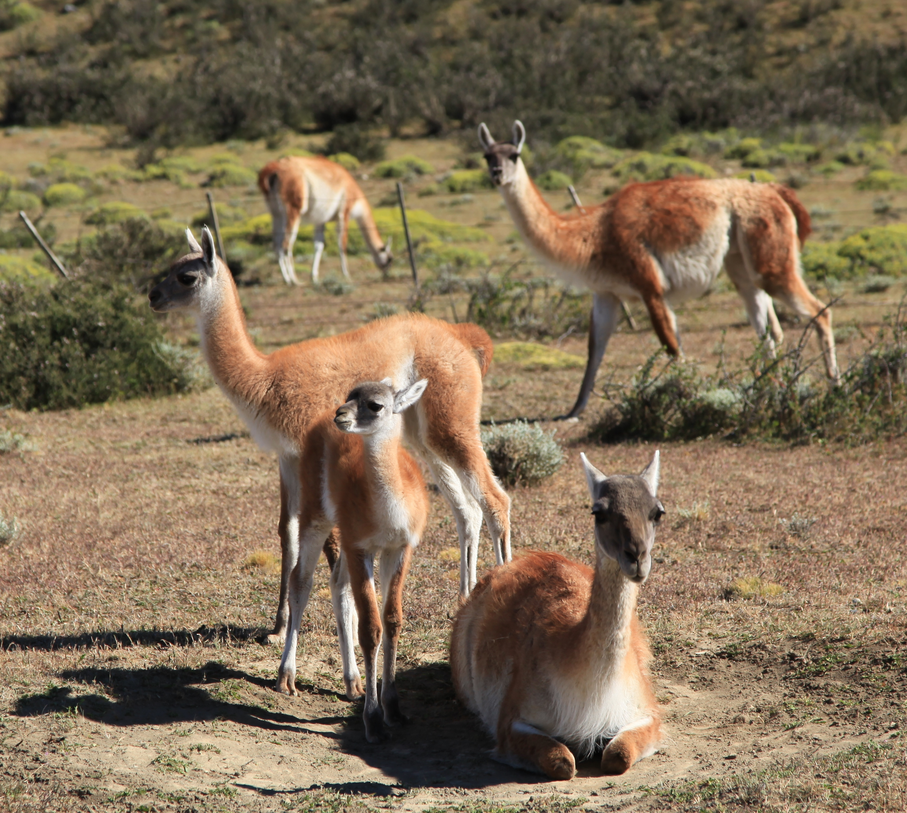 Guanaco herd near Torres del Paine National Park